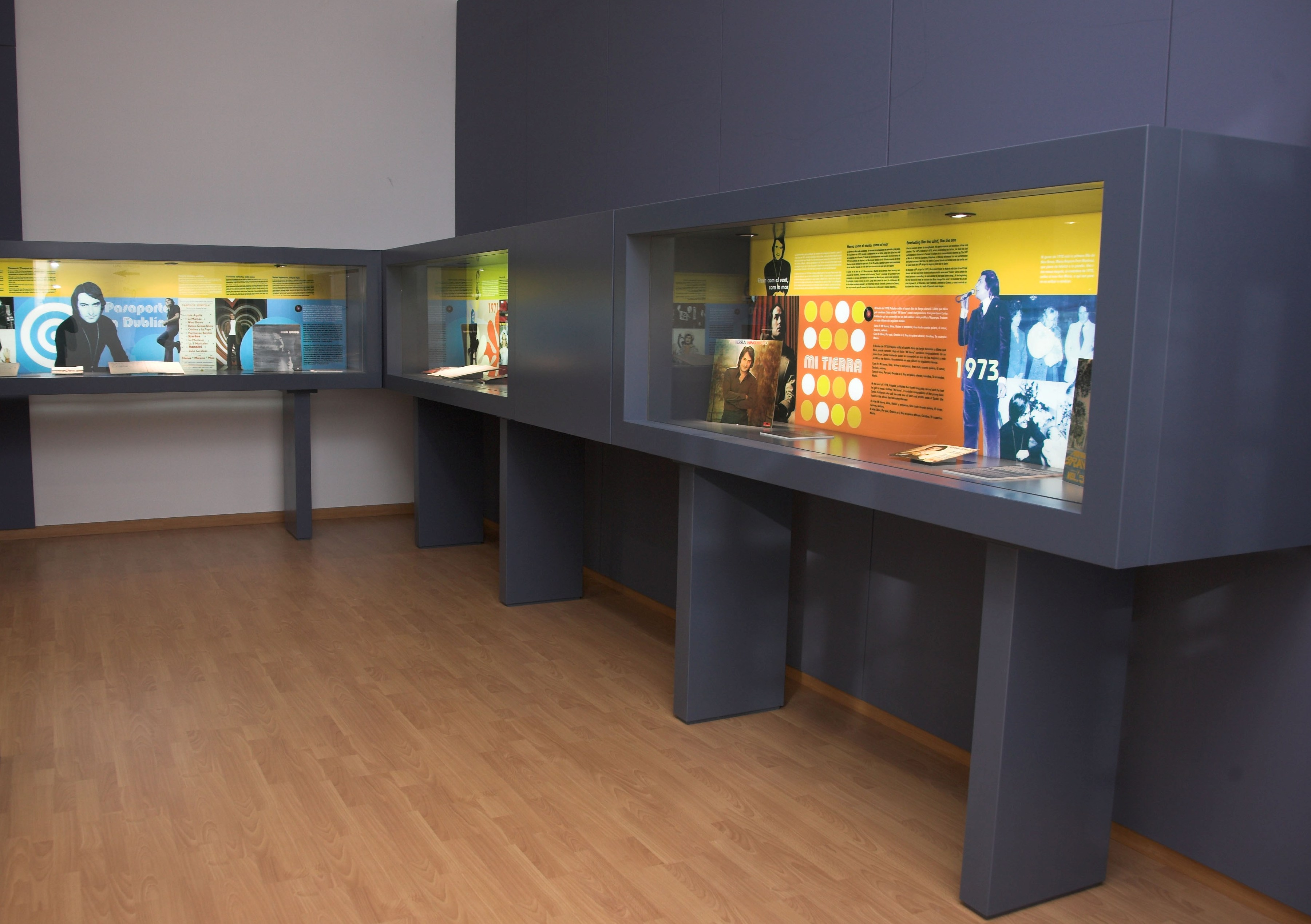 Vista de una de las salas del Museo Nino Bravo